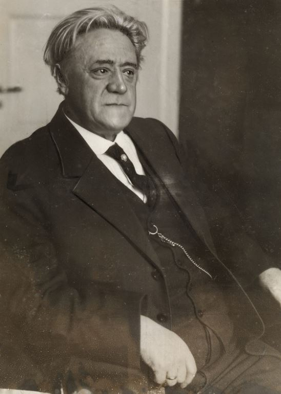 Norwegian actor and theatre director Rasmus Rasmussen (1862–1932), picture from late 1920s